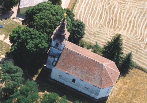 A galamboki református templom, Hungary, aerialphotography